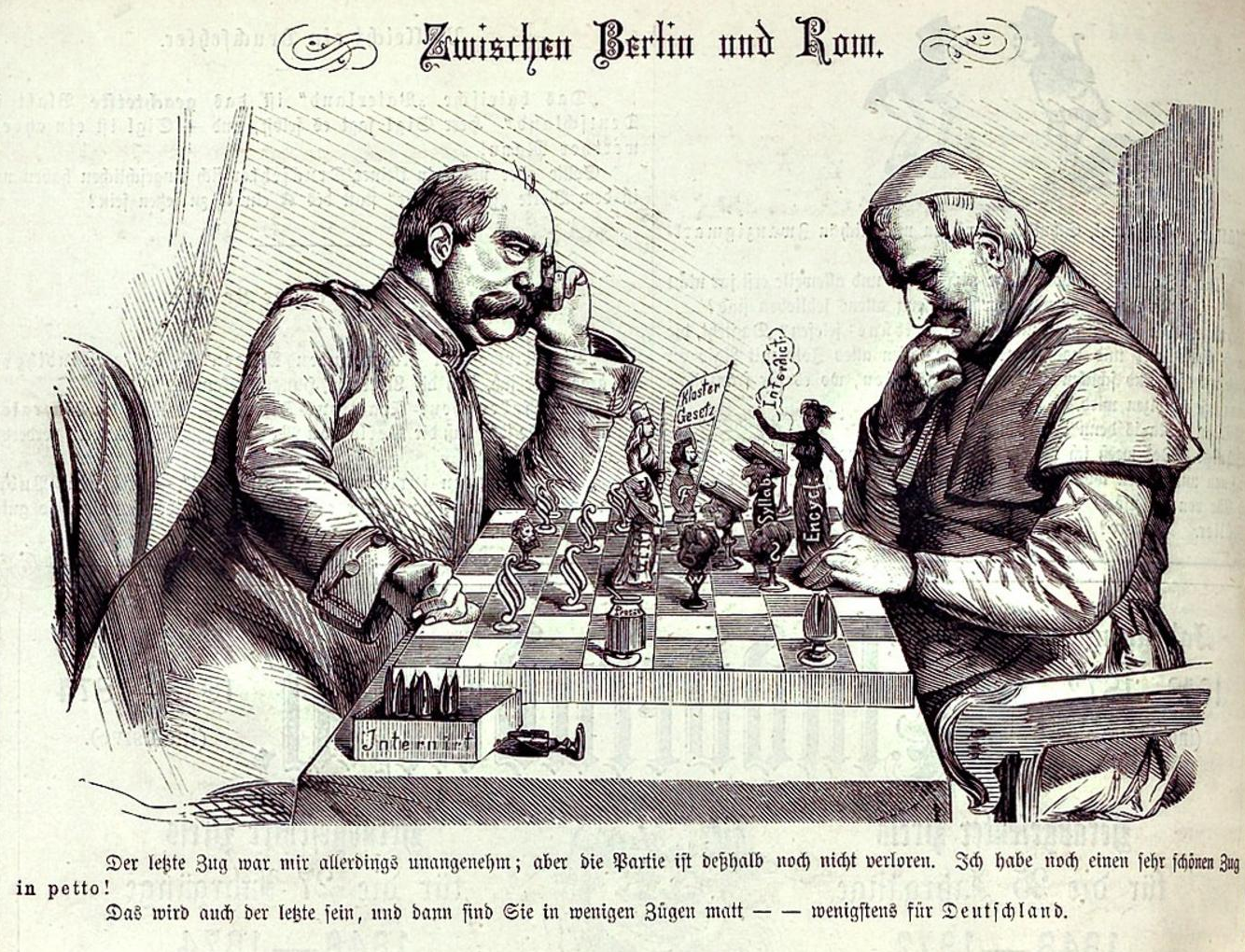 Kulturkampf caricature "Between Berlin and Rome" from Kladderadatsch, 16 May 1875. The caption reads:(Pope:) "The last move was certainly very unpleasant for me; but that doesn't yet mean the game is lost. I have one more very fine move up my sleeve!"(Bismarck:) "It will also be the last, and then you are mated in a few moves - at least for Germany." On the lower left corner of the table, it can be seen that several bishops have already been imprisoned (internirt) by Bismarck. Some of the chess pieces bear words: Interdict, Encycl., Syllab. and Klostergesetz. Others are symbols of German state power (Germania represents the German Empire, section signs represent German law) or Catholic ecclesiastical power (mitres represent episcopal authority). Note the caricaturist's error in orienting the chessboard by placing white squares on players' left.